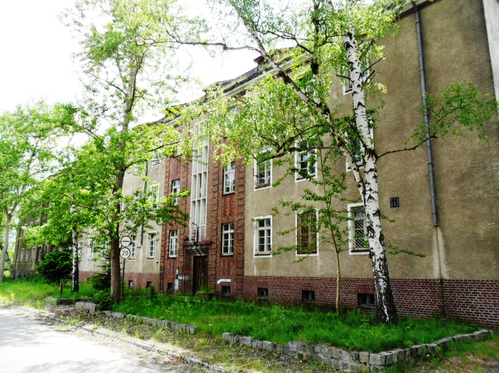 The building in which the battalion was stationed repair